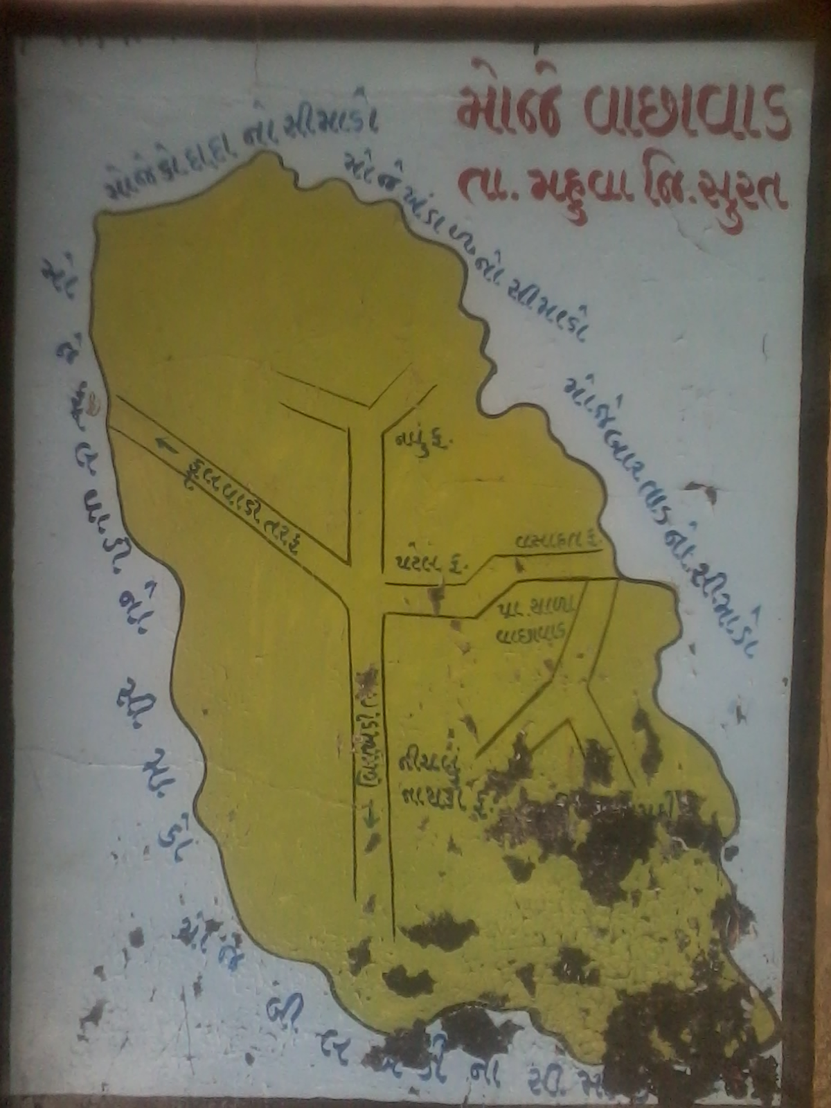 Vachhavad2